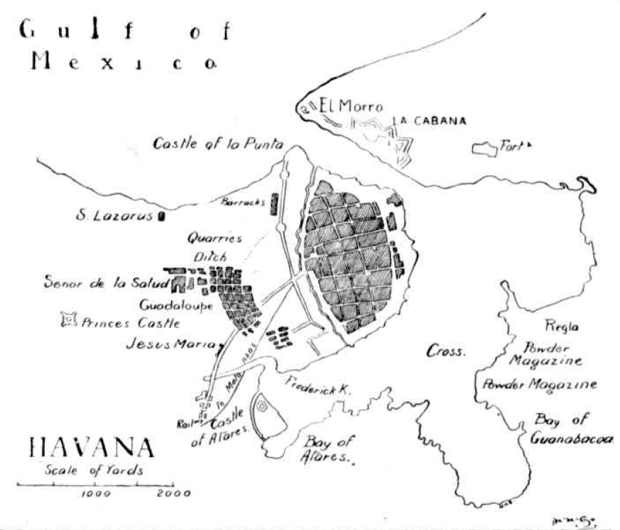 Havana map, end of the 19th century